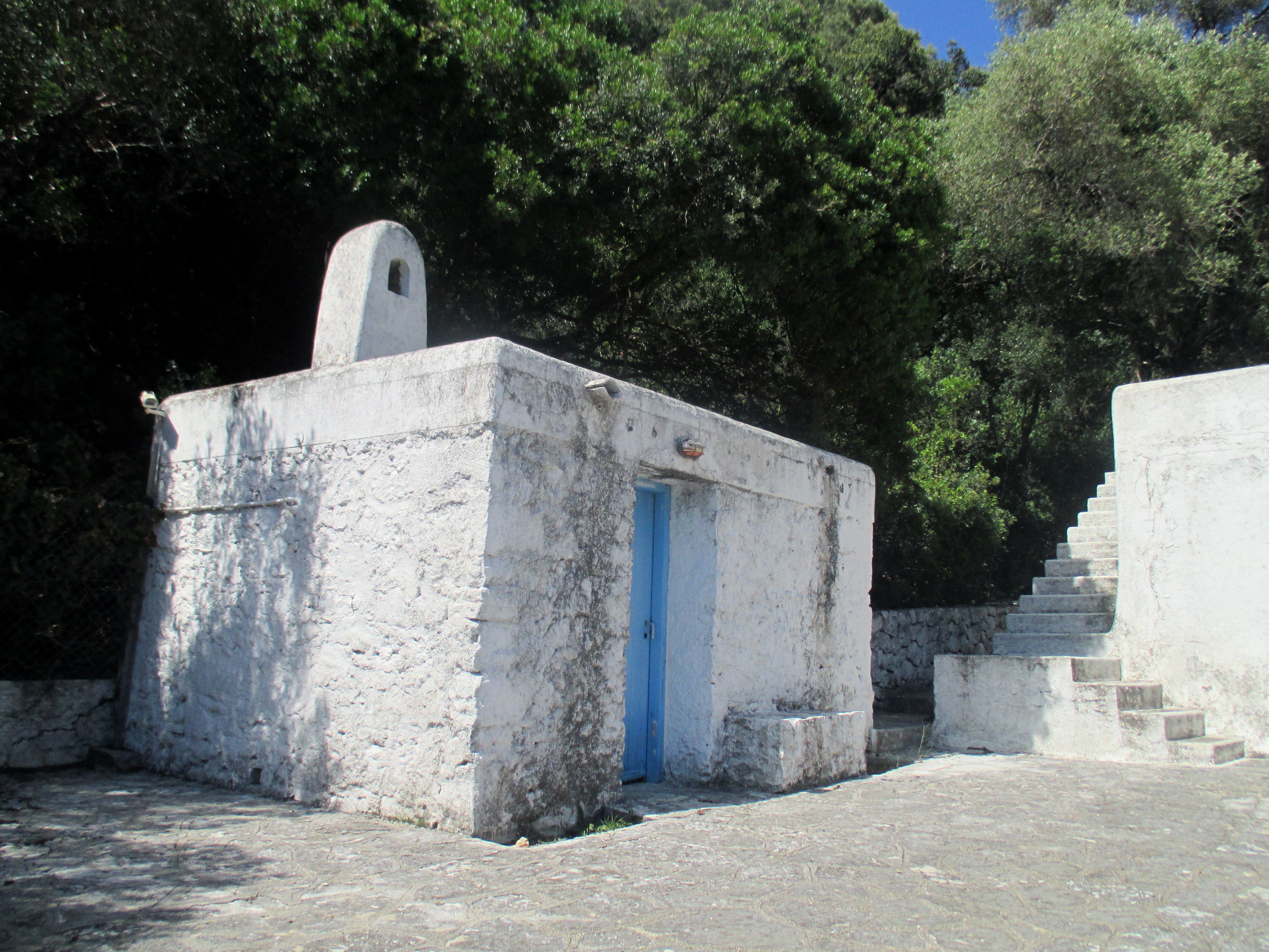 A chapel on Skorpios island, Ionian Islands, Greece.